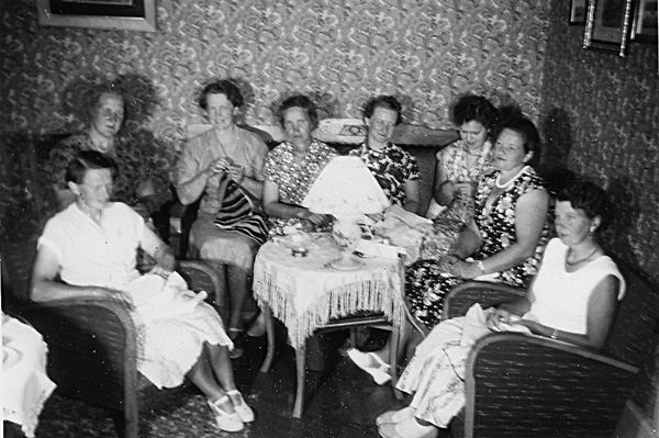 A swedish so called "Syjunta", a group of women that come together to talk and do needlework. The picture is from the village Havdhem on the island Gotland in Sweden.